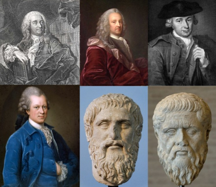 Images of Christian Wolff, Ludvig Holberg, Johann Georg Hamann, Gotthold Ephraim Lessing, Plato and Socrates